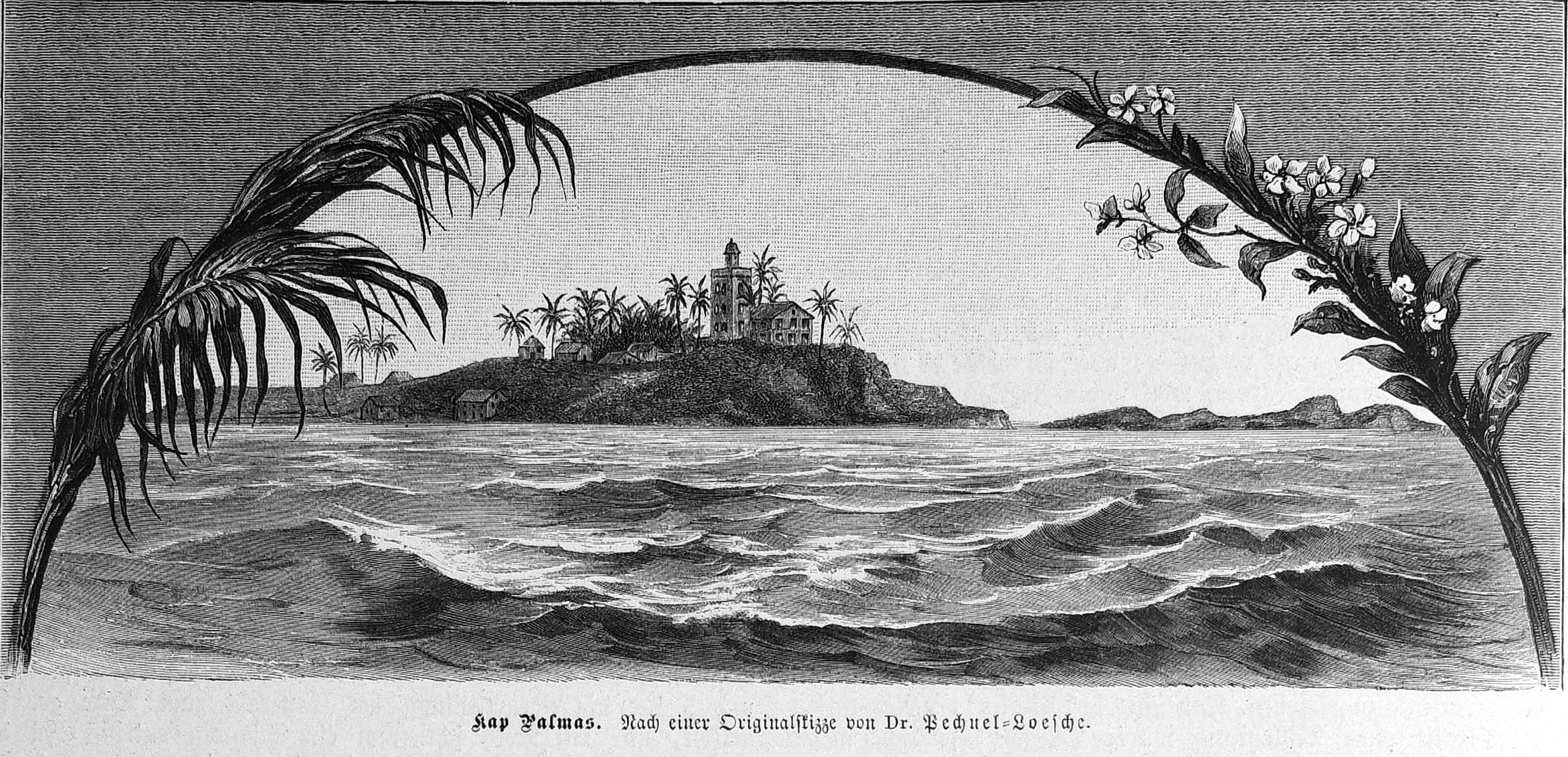 caption: "Kap Palmas. Nach einer Originalskizze von Dr. Pechuel-Loesche."